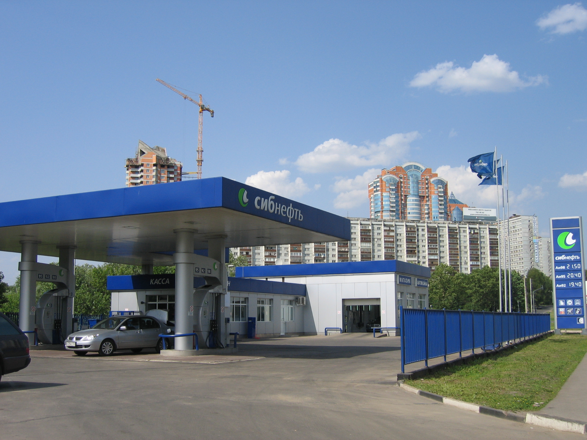 Sibneft petrol station, Moscow